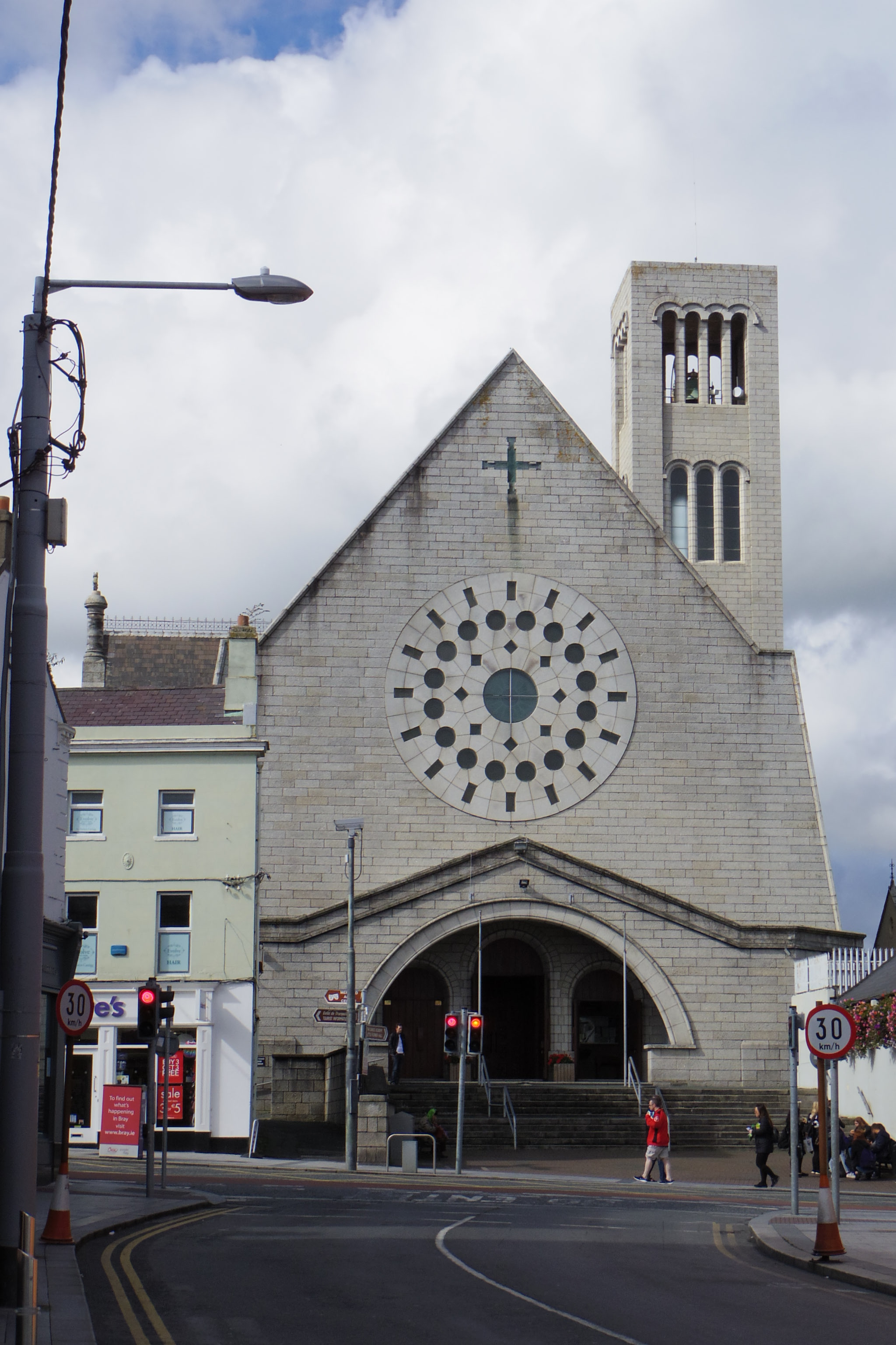 County Wicklow, Holy Redeemer Church, Bray. Wikidata has entry Q16844415 with data related to this item.